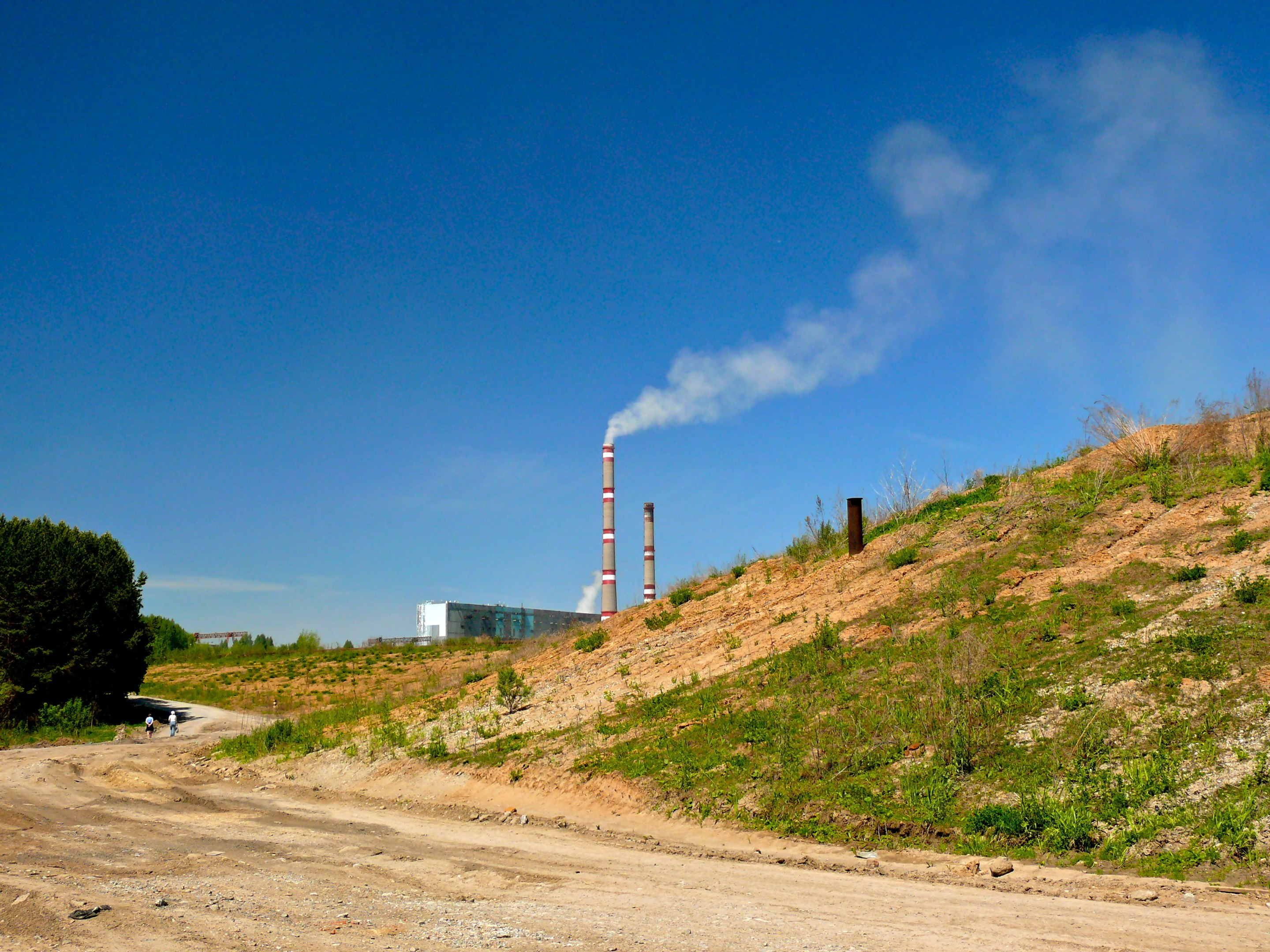 Description ТЭЦ-5 в Новосибирске (Combined heat and power plant in Novosibirsk)Date 6 June 2010, 13:13Source ТЭЦ-5Author Alex Polezhaev from Novosibirsk, Russia Licensing